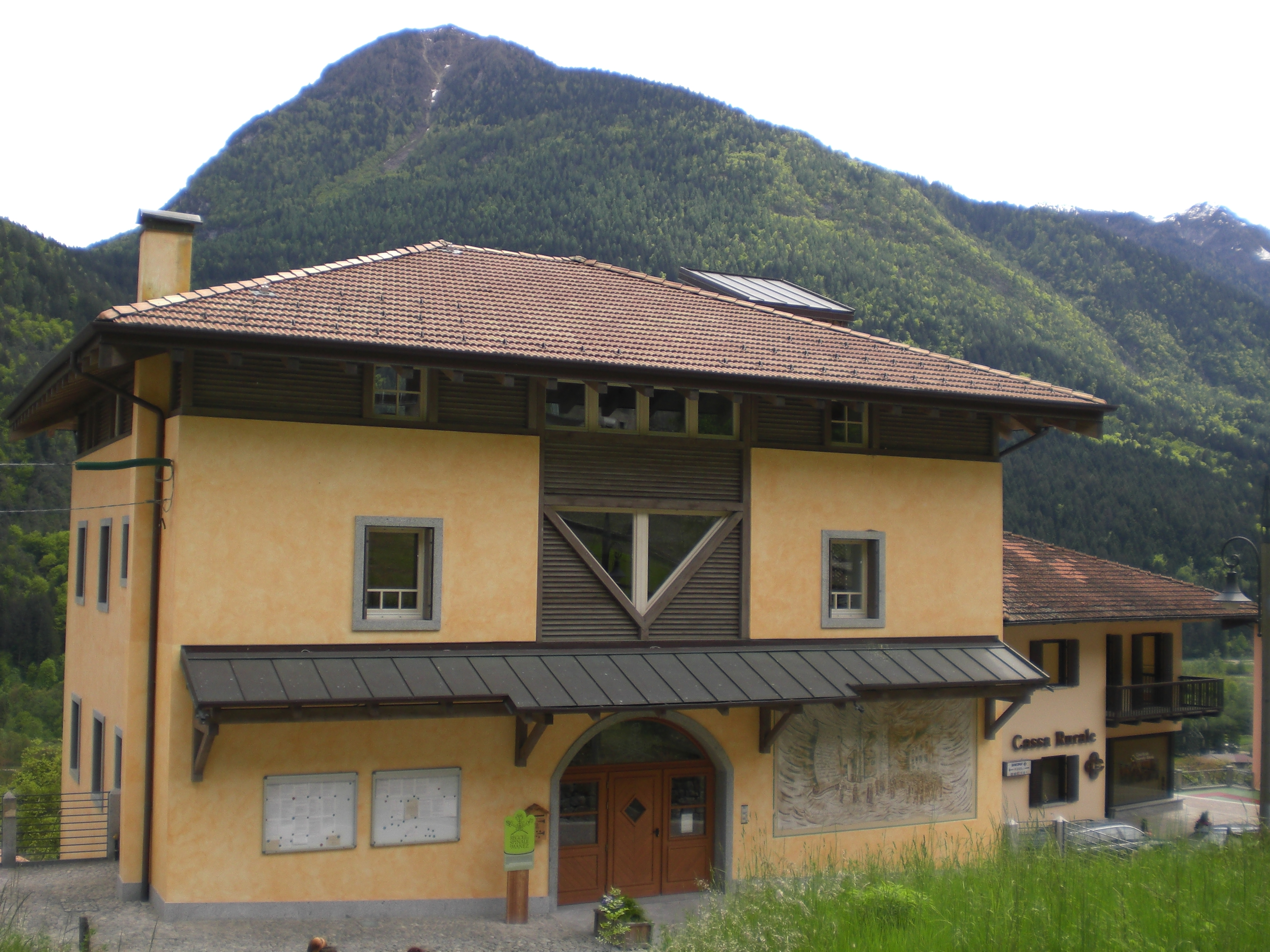 headquarters of the Comunità delle Regole di Spinale e Manez in Ragoli village (Trentino, Italy), via Roma 19